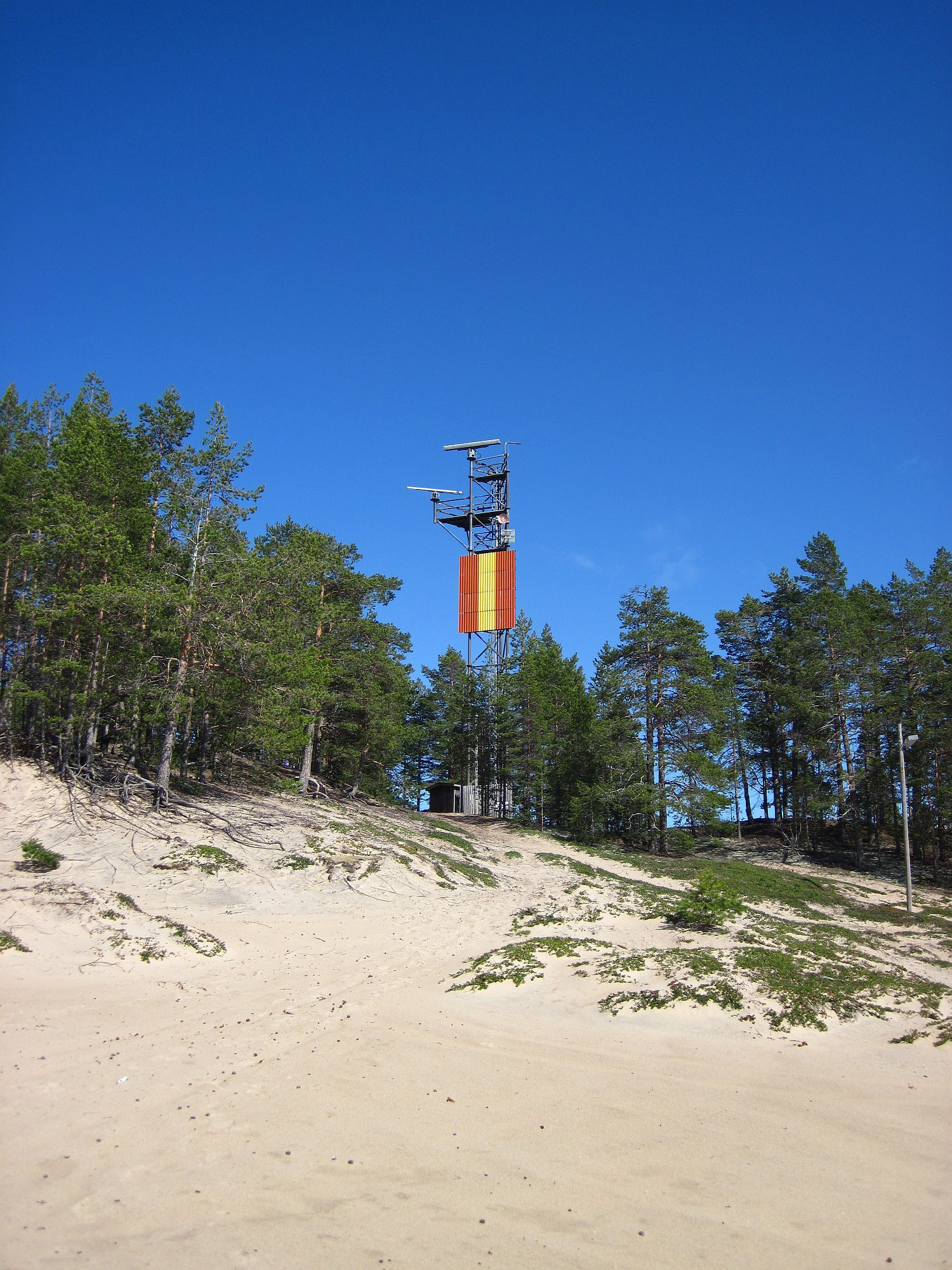 The rear range light of Hyypänmäki stands on the highest point in Hailuoto.